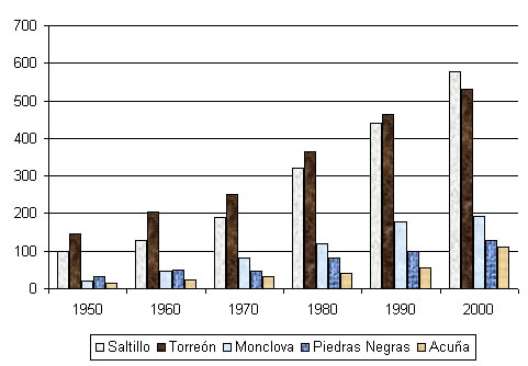 Historical Population of Coahuila (State of Mexico)